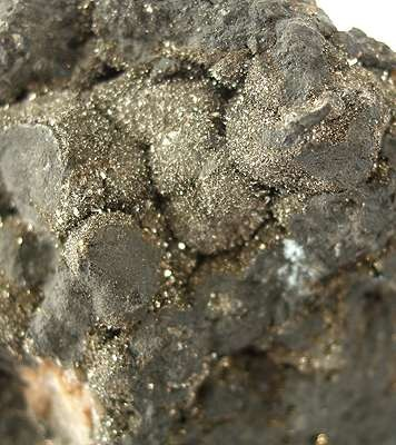 Löllingite, Dyscrasite, Arsenic Locality: Samson Mine, St Andreasberg, St Andreasberg District, Harz Mts, Lower Saxony, Germany (Locality at ) Size: 4.7 x 3.7 x 3.4 cm. From the important Samson Mine, this is a sparkling specimen of minute Lollingite crystals perched upon native arsenic atop of nodular dyscrasite.